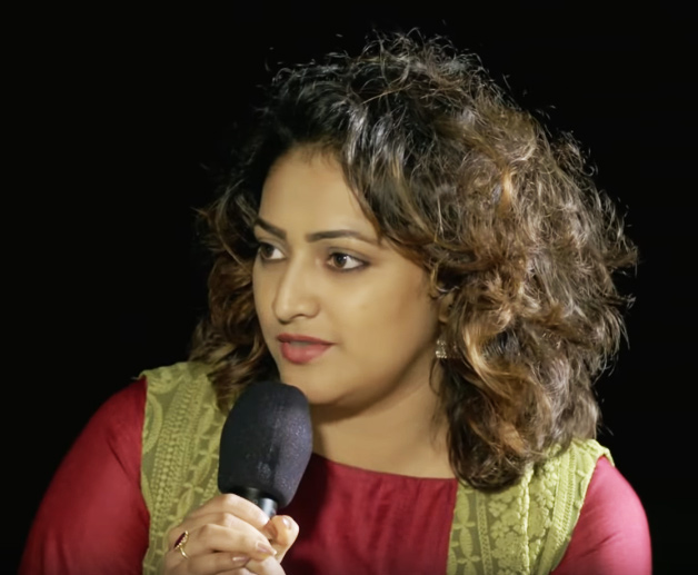 Indian actress Hariprriya, in conversation with Sadhguru